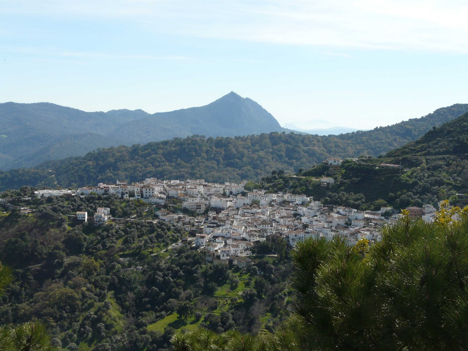 Benarraba